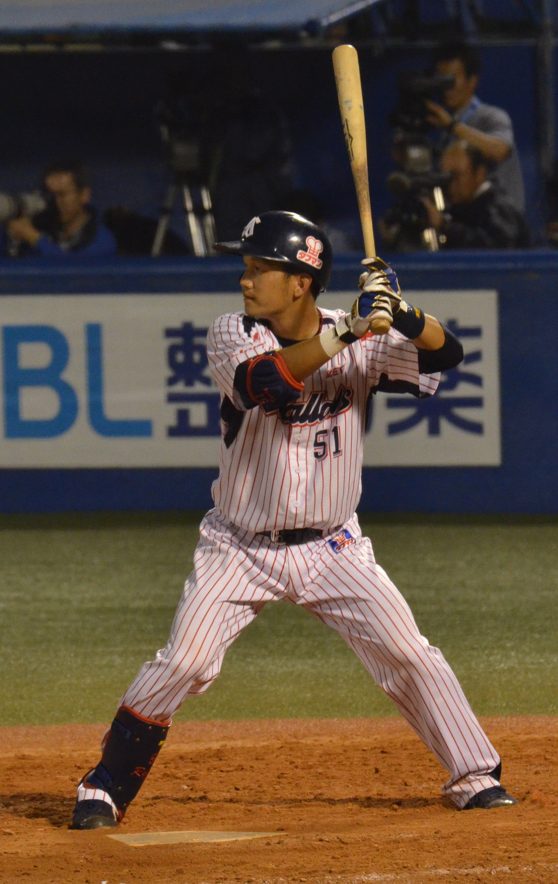 Ryota Fujii, catcher of the Tokyo Yakult Swallows, at Meiji Jingu Stadium.